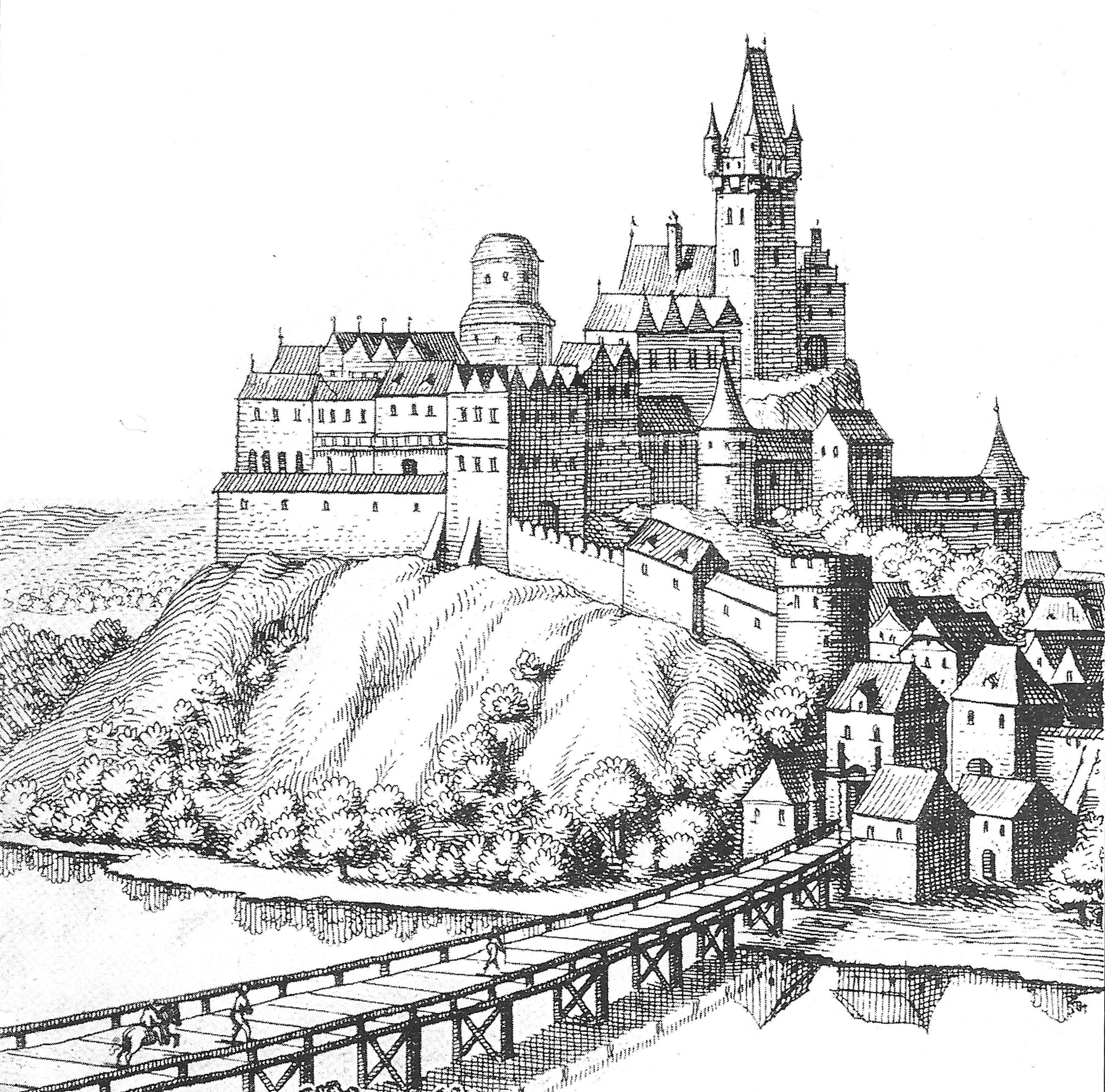 Castle in Cieszyn in 1650 on panorama by Matheus Merian.